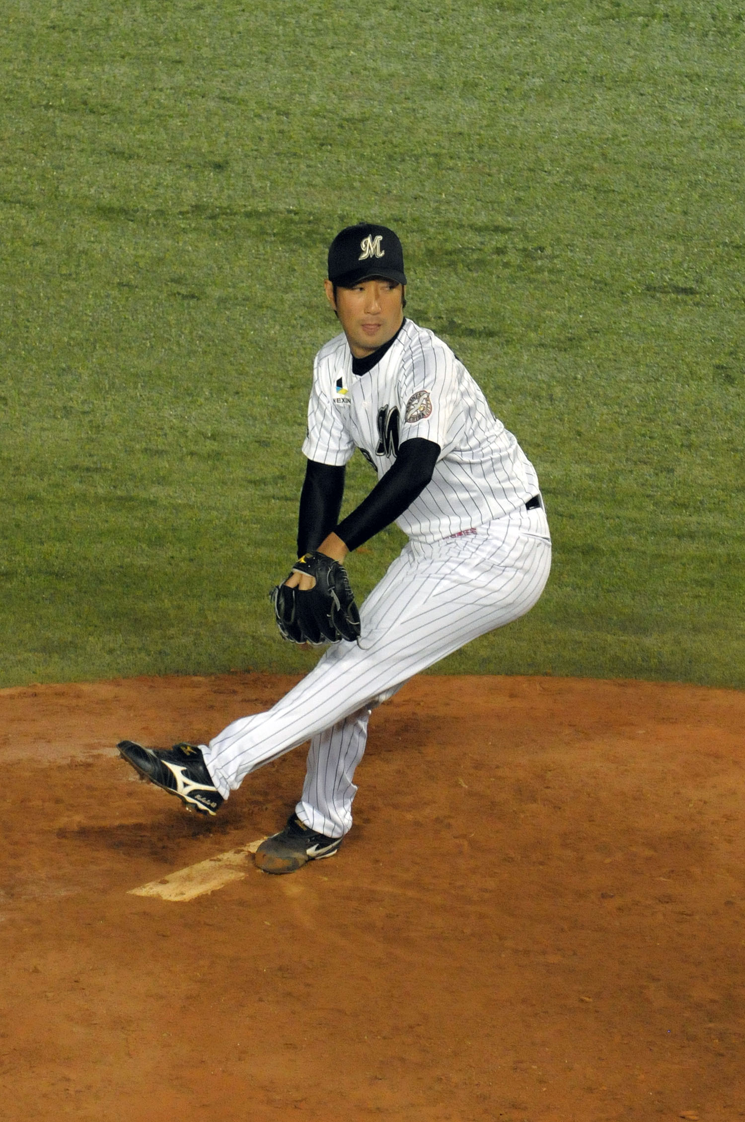 Yasuhiko Yabuta, pitcher of the Chiba Lotte Marines, at Chiba Marine Stadium.